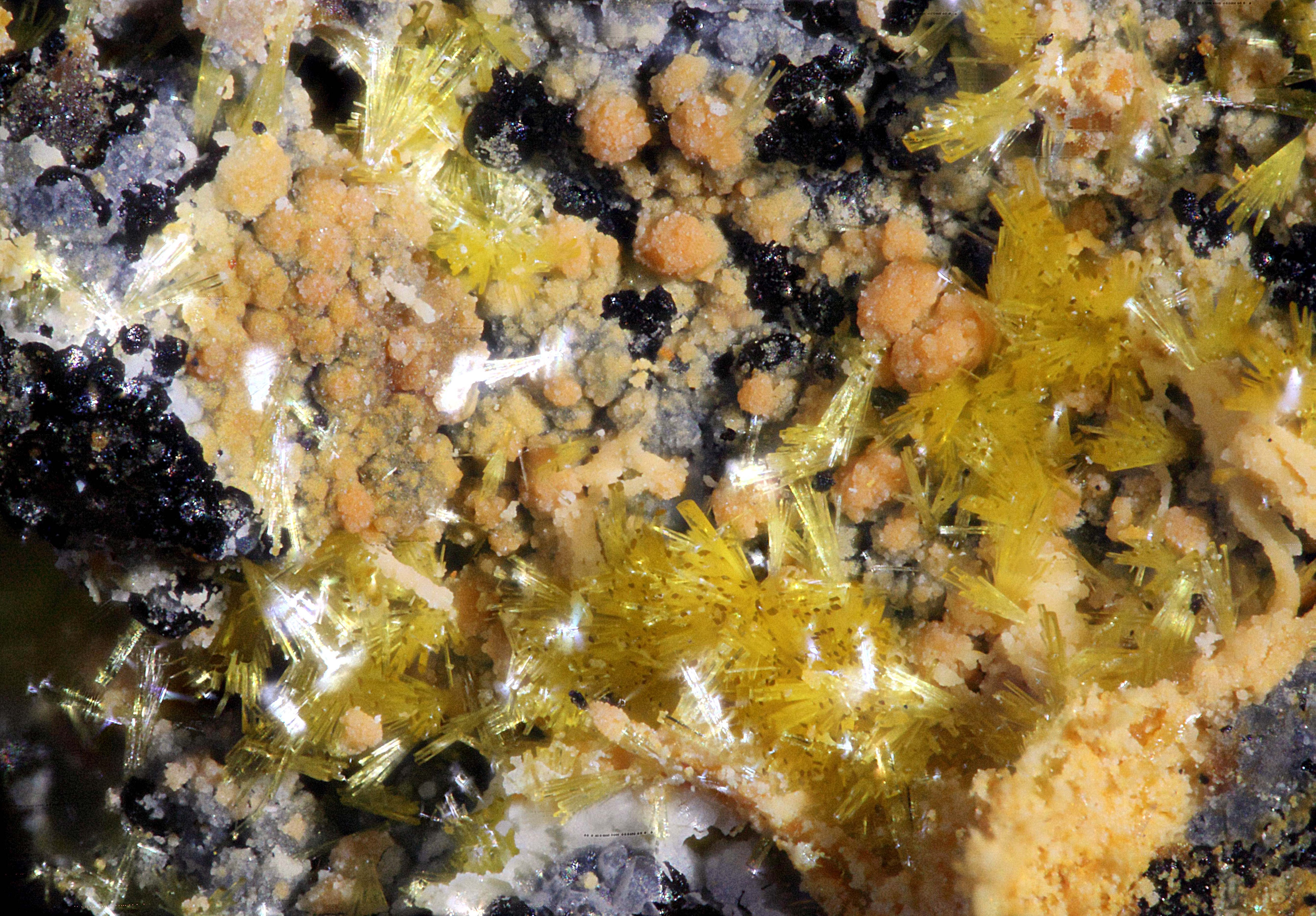 Lemon yellow needles of Dewindtite from Grury, France (Field of view: ca. 5 mm)